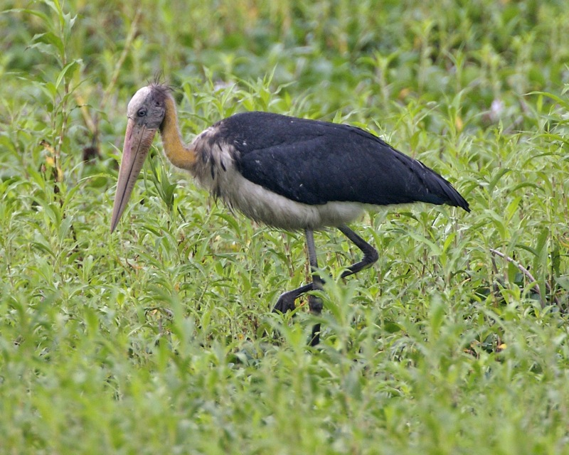 A good friend, an eminent nature photographer just refuses to shoot these. Too ugly he says. You just have to agree with him. Lesser Adjutant Leptoptilos javanicus Kazaringa, Assam, India April 14, 2008 690V4227